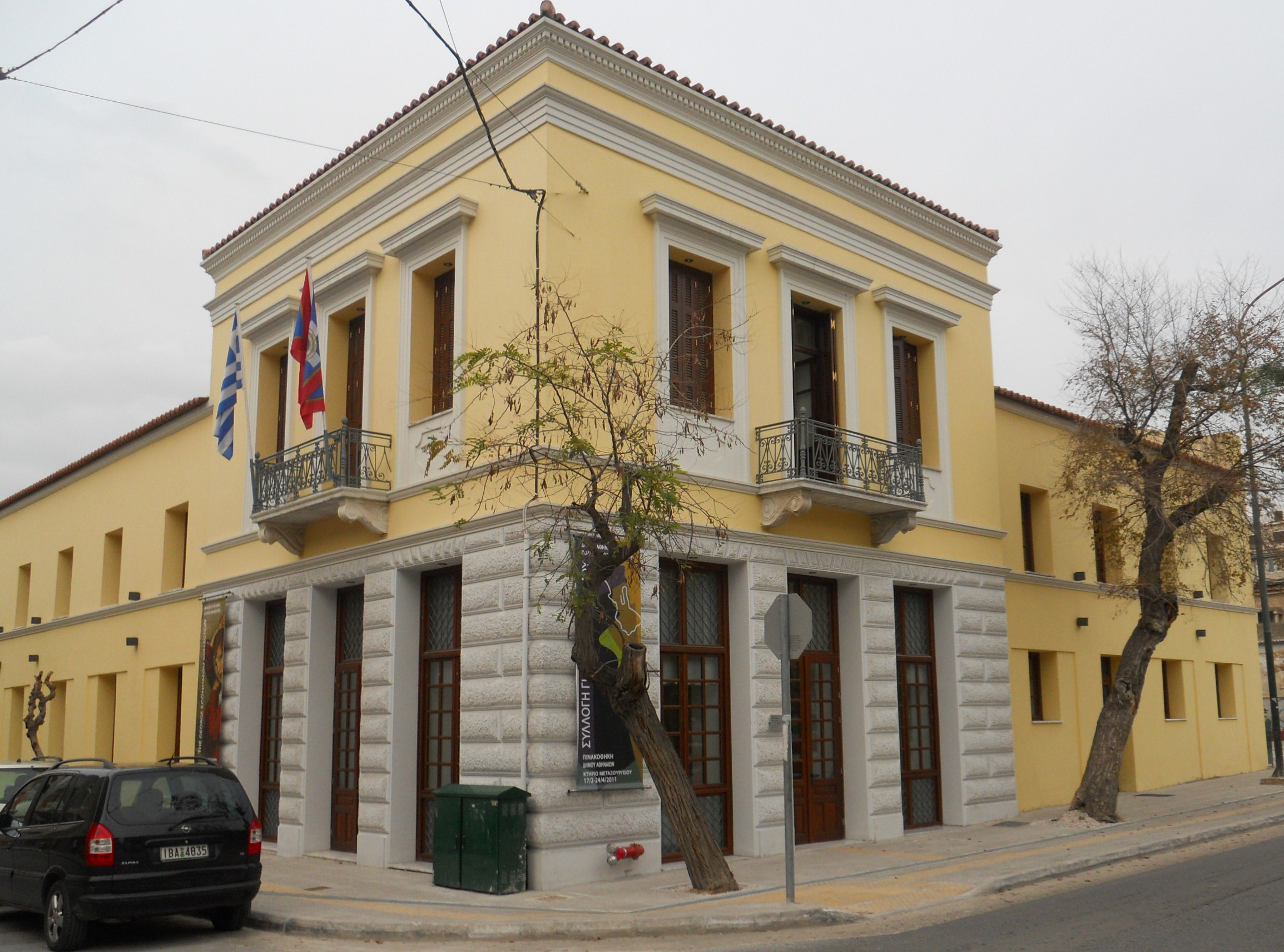 The Municipal Gallery of Athens is located in the Metaxourgeio neighborhood of Athens, Greece.